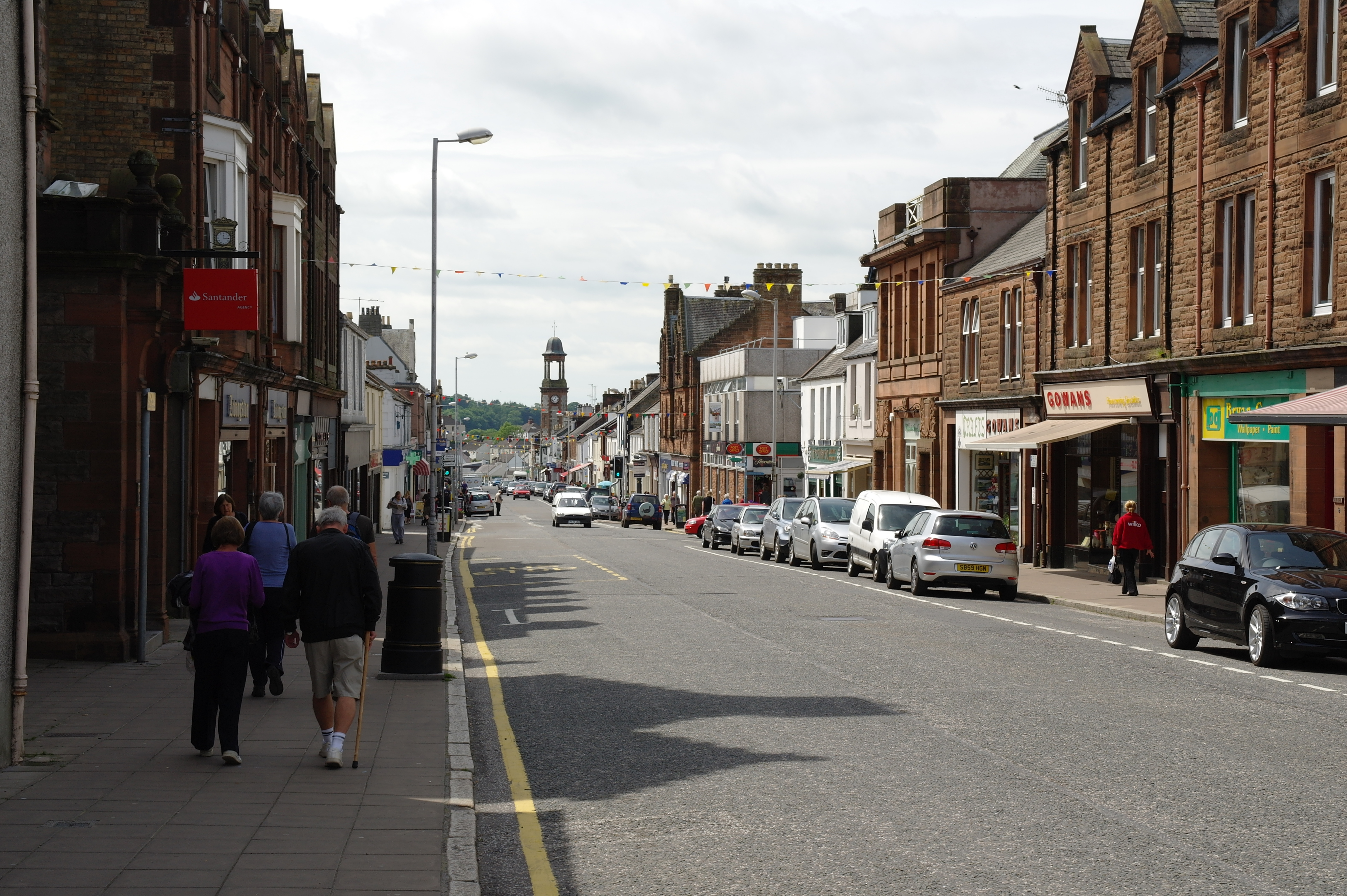 King Street in Castle Douglas, Scotland